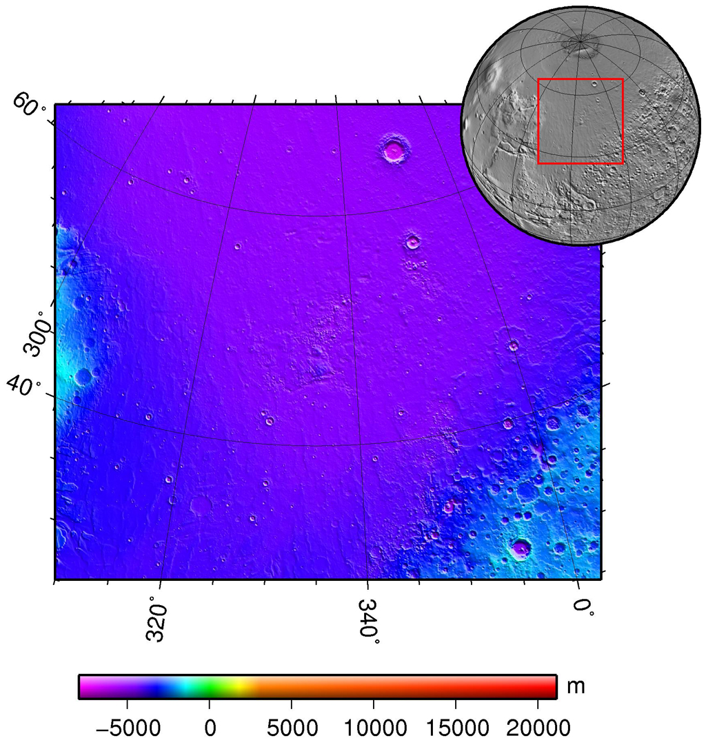 Acidalia planitia (Mars) topography